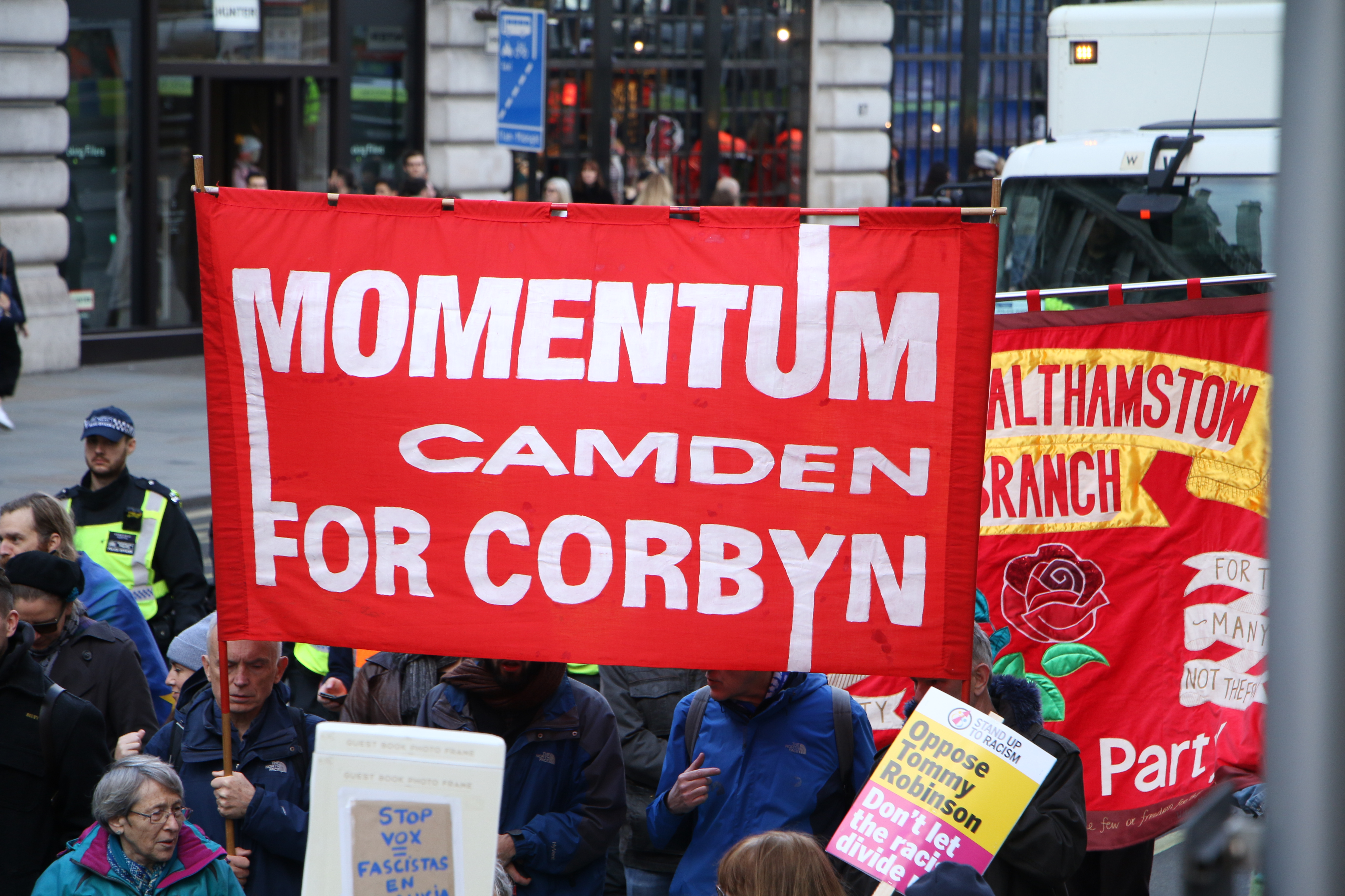 Marchers in London on 9th December 2018. Protestors state "No to Tommy Robinson. No to Fortress Britain."